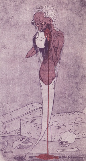 Ghost that bites woman's severed head.